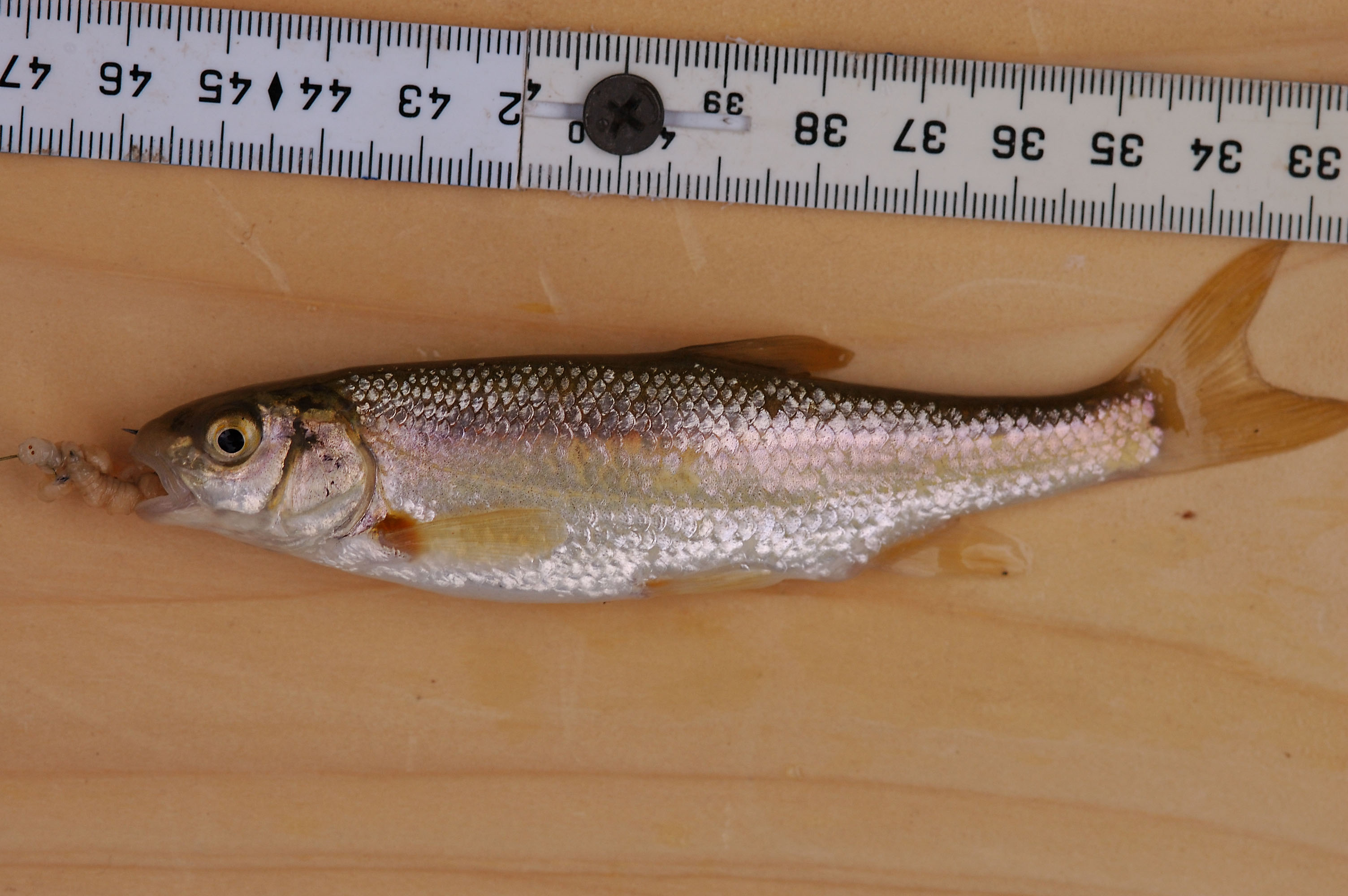 Telestes muticellus collected in central Italy (Tiber drainage). Photo by Andrea Tiberi.